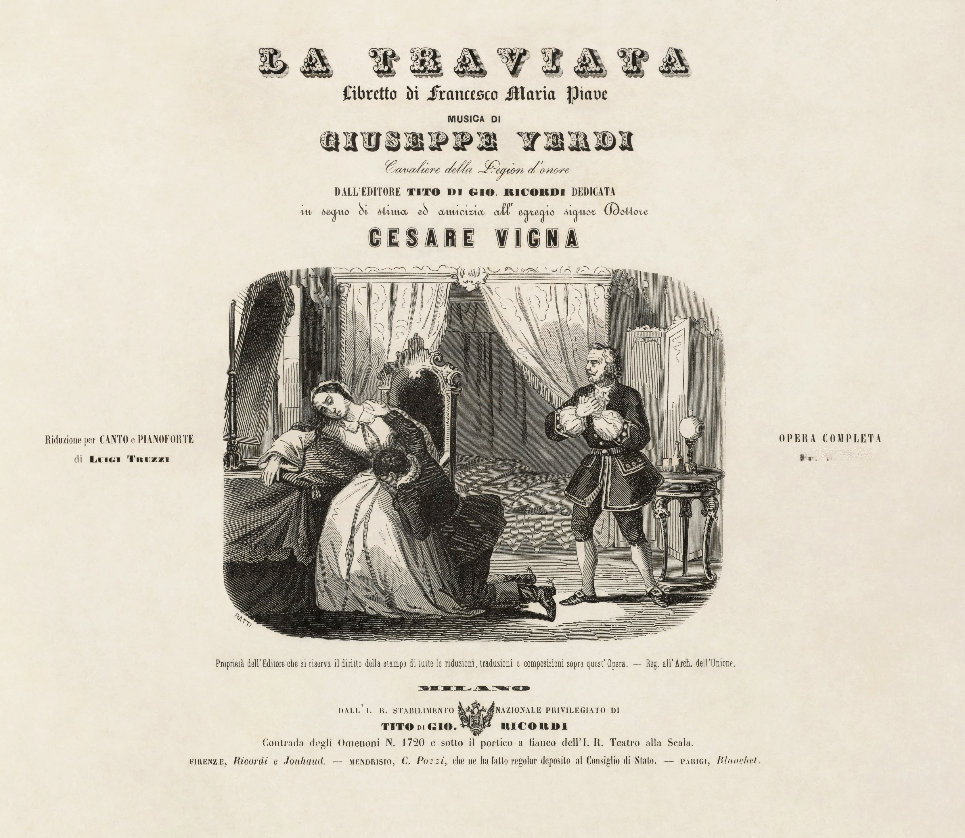 Title page of Verdi, Giuseppe, 1813-1901. [Traviata. Vocal score]. La traviata / libretto di Francesco Maria Piave ; musica di Giuseppe Verdi ; riduzione per canto e pianoforte de L. Truzzi. Milano : Tito di Gio. Ricordi, [1855?]. Mus 857.1.600.6